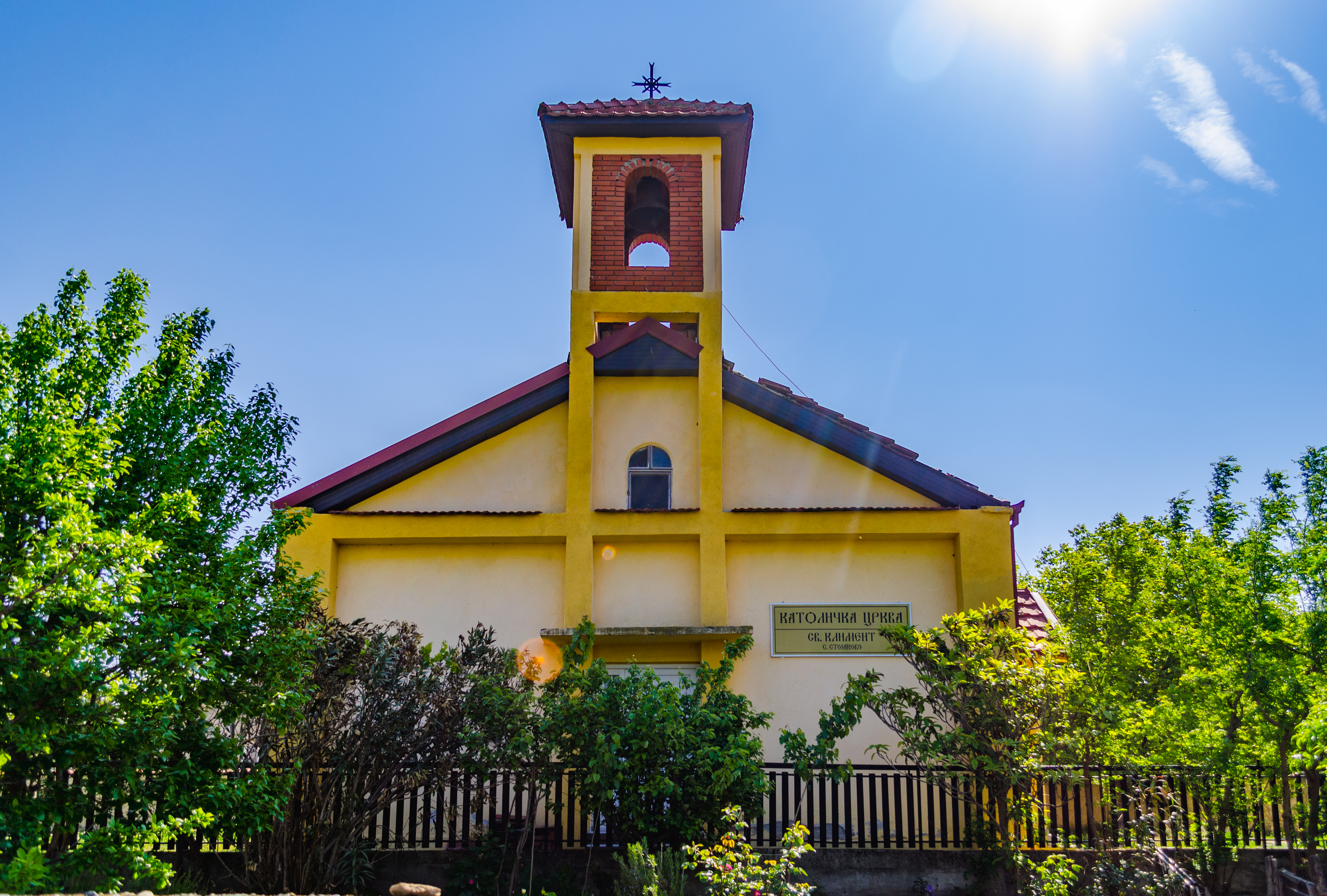 St. Clement of Ohrid Church in the village of Stojakovo, Macedonia